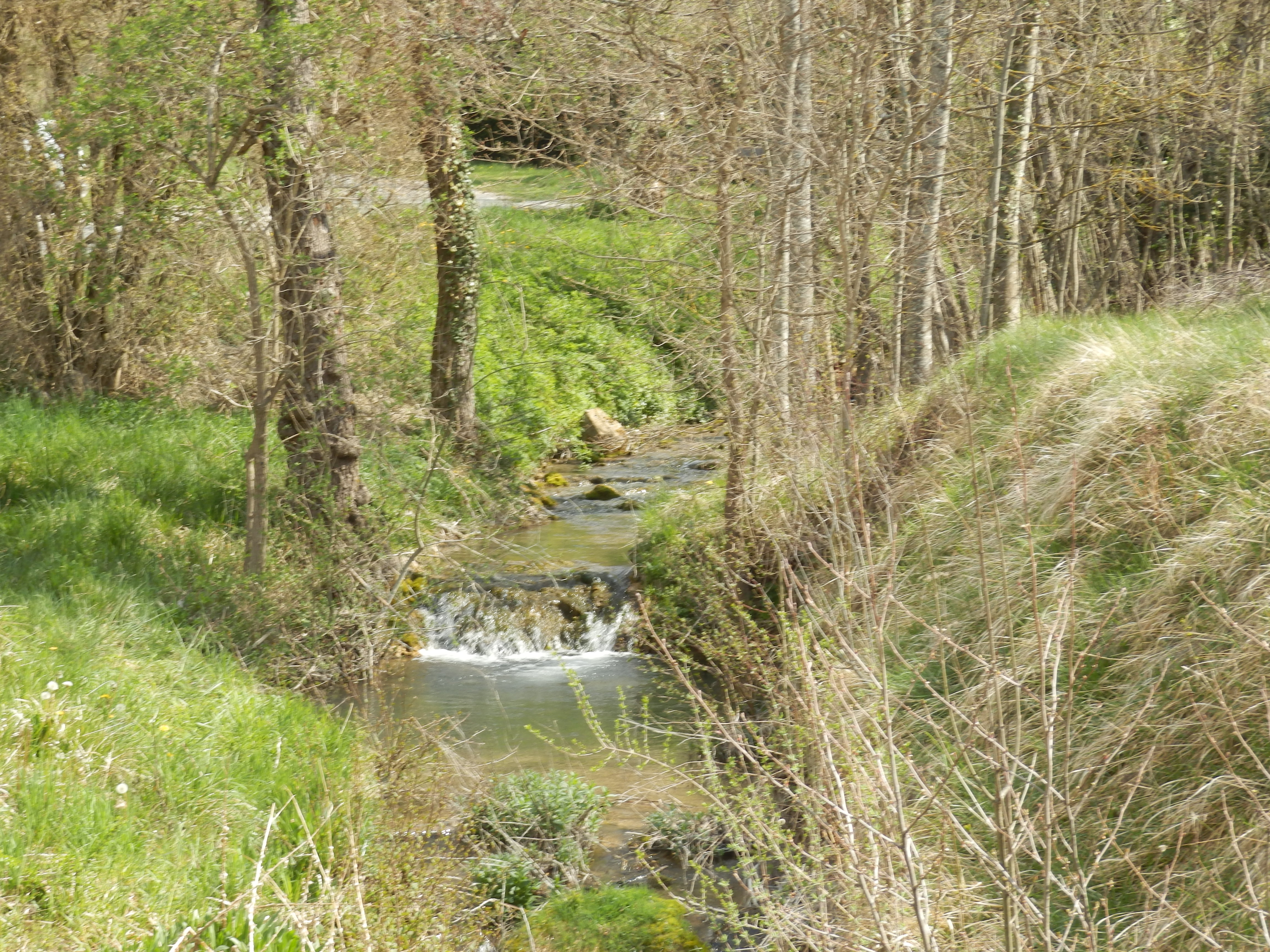 Le Liouroux in Les Tonils, Drôme, France